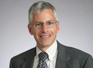 William A. Jeffrey, the CEO of SRI International, and former director of NIST.